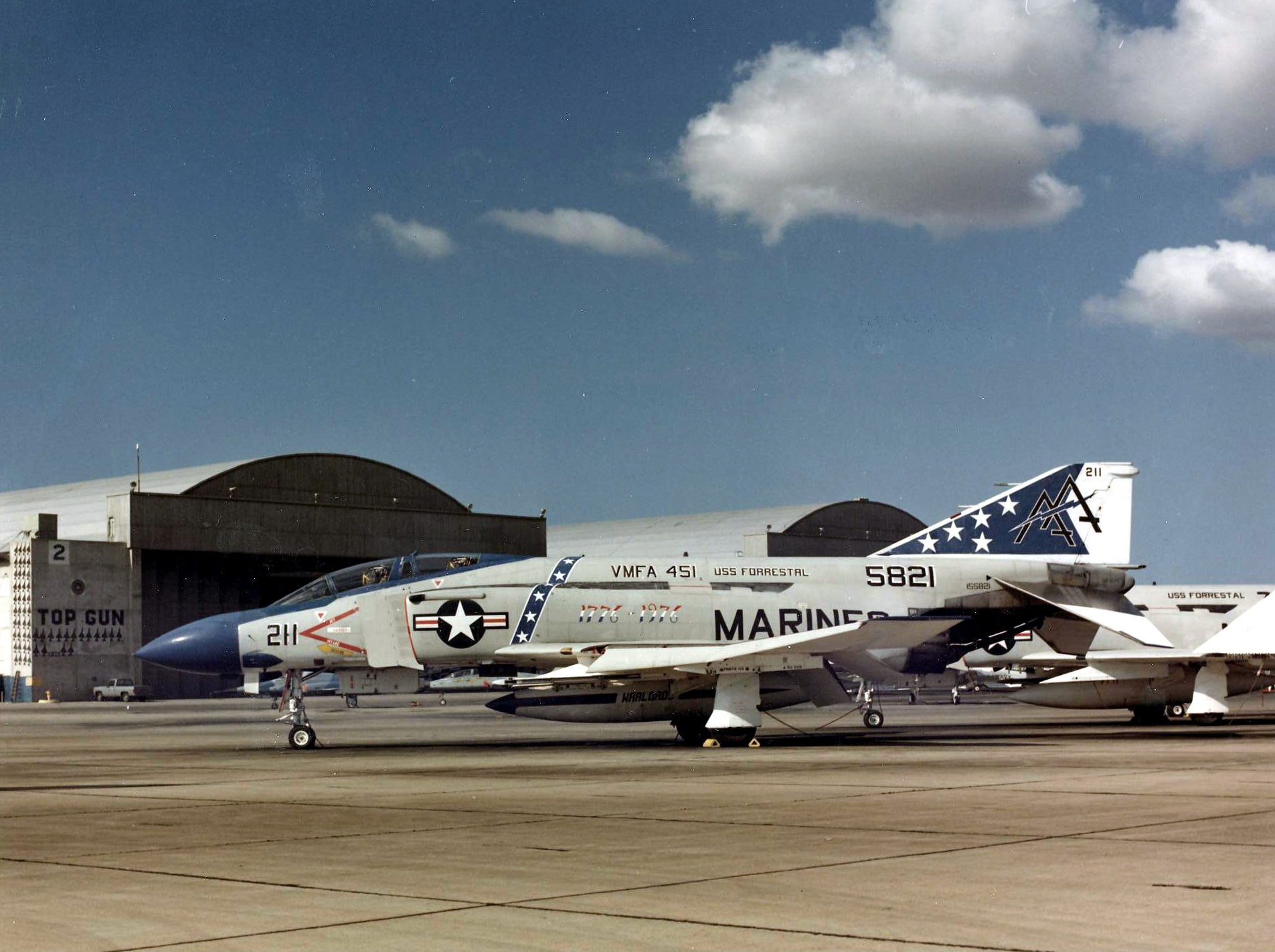 A U.S. Marine Corps McDonnell F-4J-35-MC Phantom II (BuNo 155821) from Marine Fighter Attack Squadron VMFA-451 "Warlords" at Naval Air Station Miramar, California (USA), on 13 November 1976. VMFA-451 was assigned to Carrier Air Wing 17 aboard the aircraft carrier USS Forrestal (CV-59) for a deployment to the Mediterranean Sea, but the cruise was canceled. Note the U.S. Bicentennial markings on the F-4, the "TOP GUN" inscription, and the "kill" markings for North Vietnamese aircraft shot down during the Vietnam War painted on the hangar in the back.